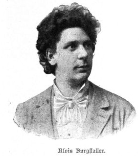 Alois Burgstaller